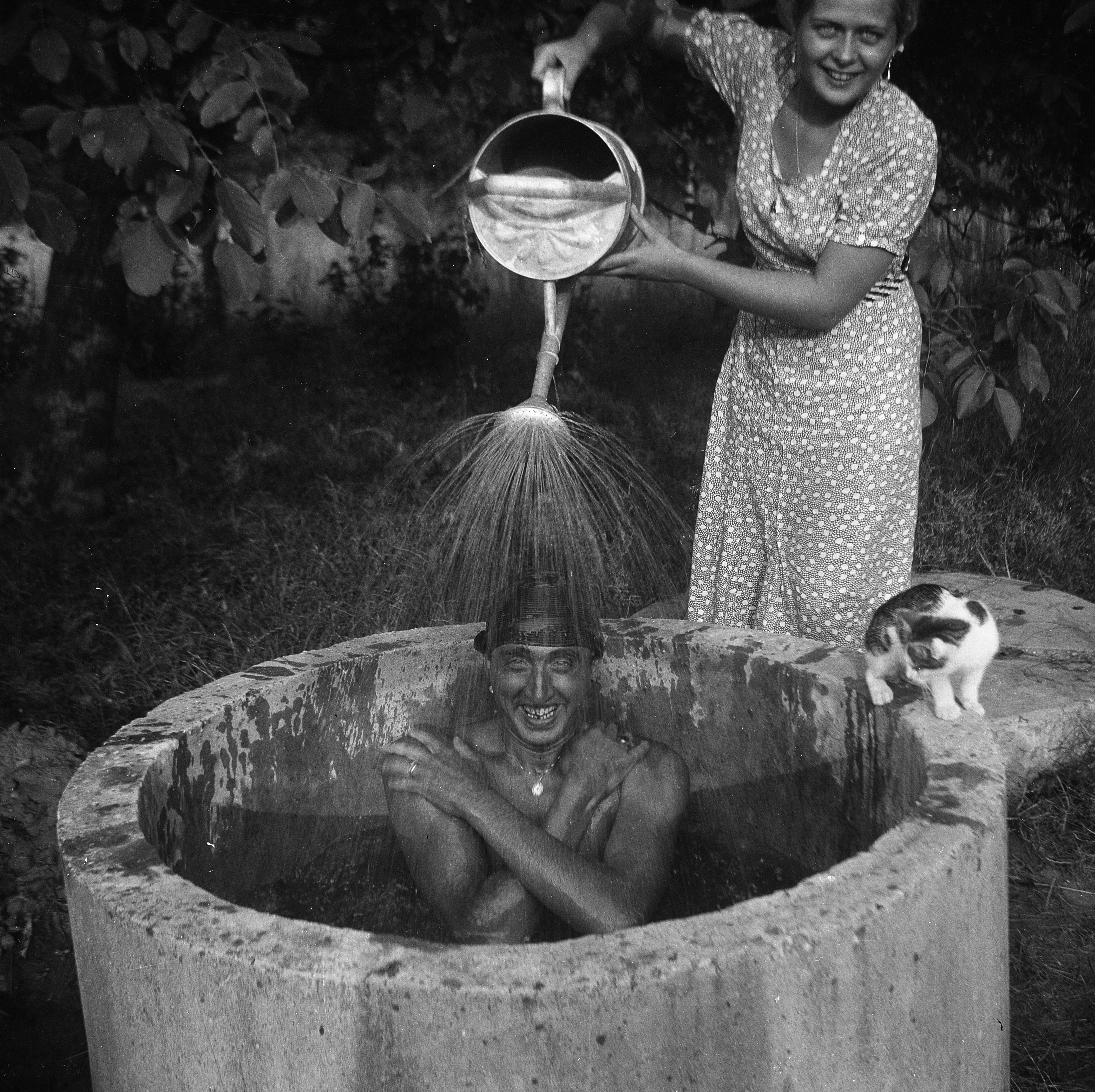 Tags: garden, watering can, man, lady, cat, jesting, summer dresses, earring